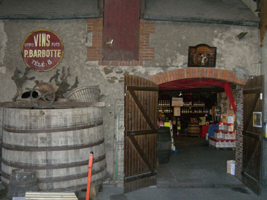 Wine tasting shop in Ouroux-en-Morvan.